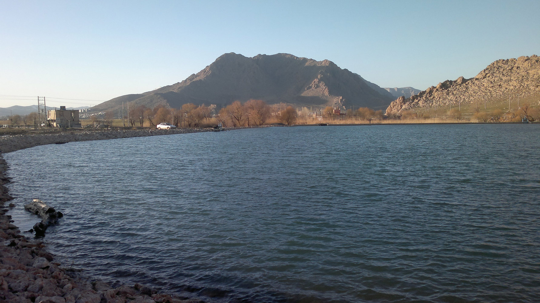 sarab jawri